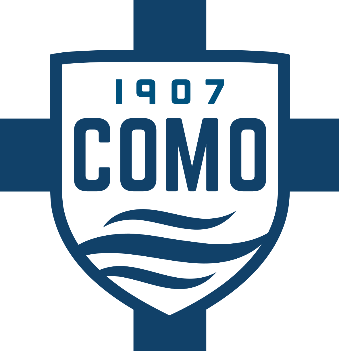 Como 1907 logo, 2019